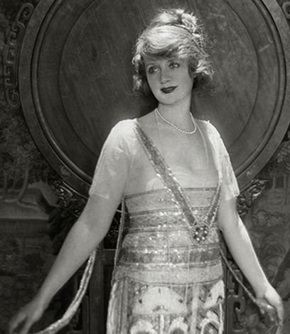 Billie Burke in elegant pose in the February 1920 issue of Vanity Fair in a portrait by Adolf de Meyer